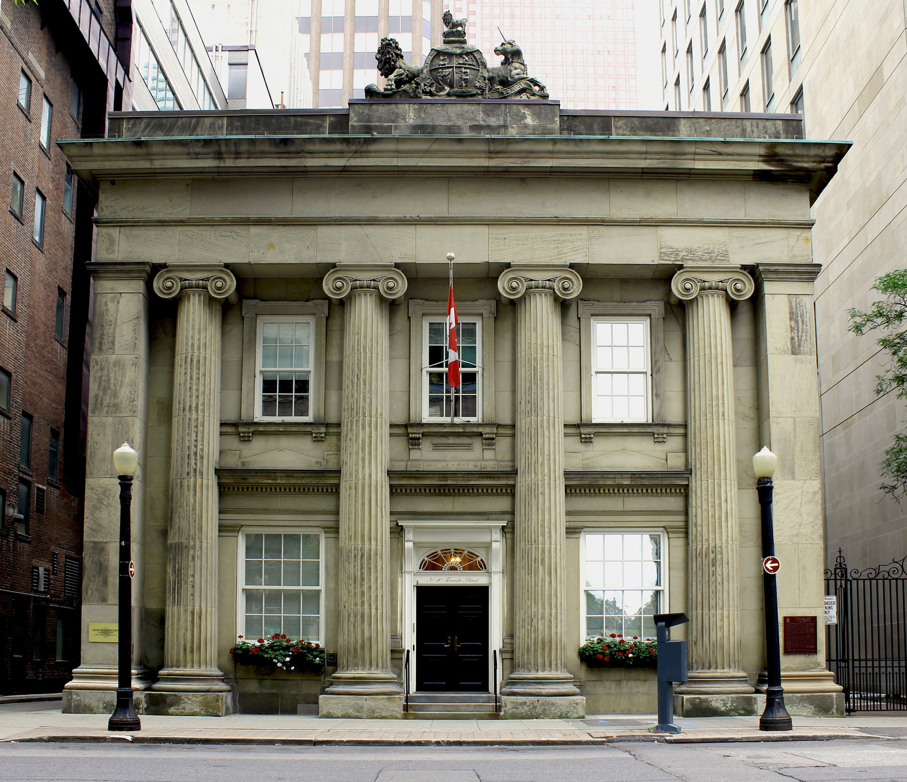 This is photo about a cultural heritage site in Canada, number 9933 (IDF) in the Canadian Register of Historic Places.